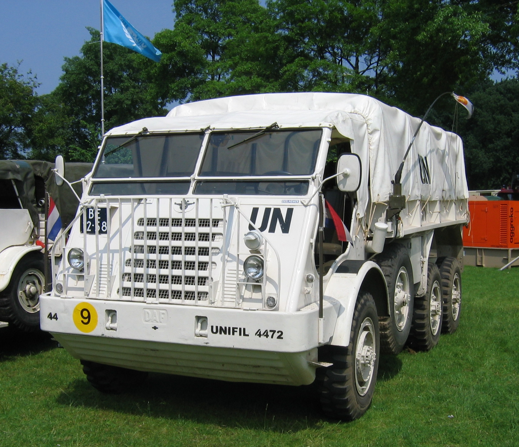 A DAF YA-328, aka "Dikke Daf", at the DAF exposition during the Eindhoven Pole Position weekend.